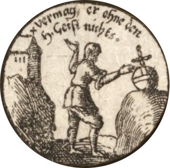 I cropped this from the image to the right. I release any rights I gained from cropping it into the public domain. Illustration of each of the 28 articles of the Augsburg Confession by Wenceslas Hollar.